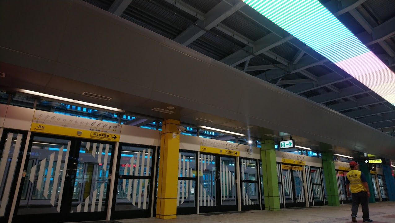 Platform 1, Banqiao Station, Taipei Metro Circular Line.